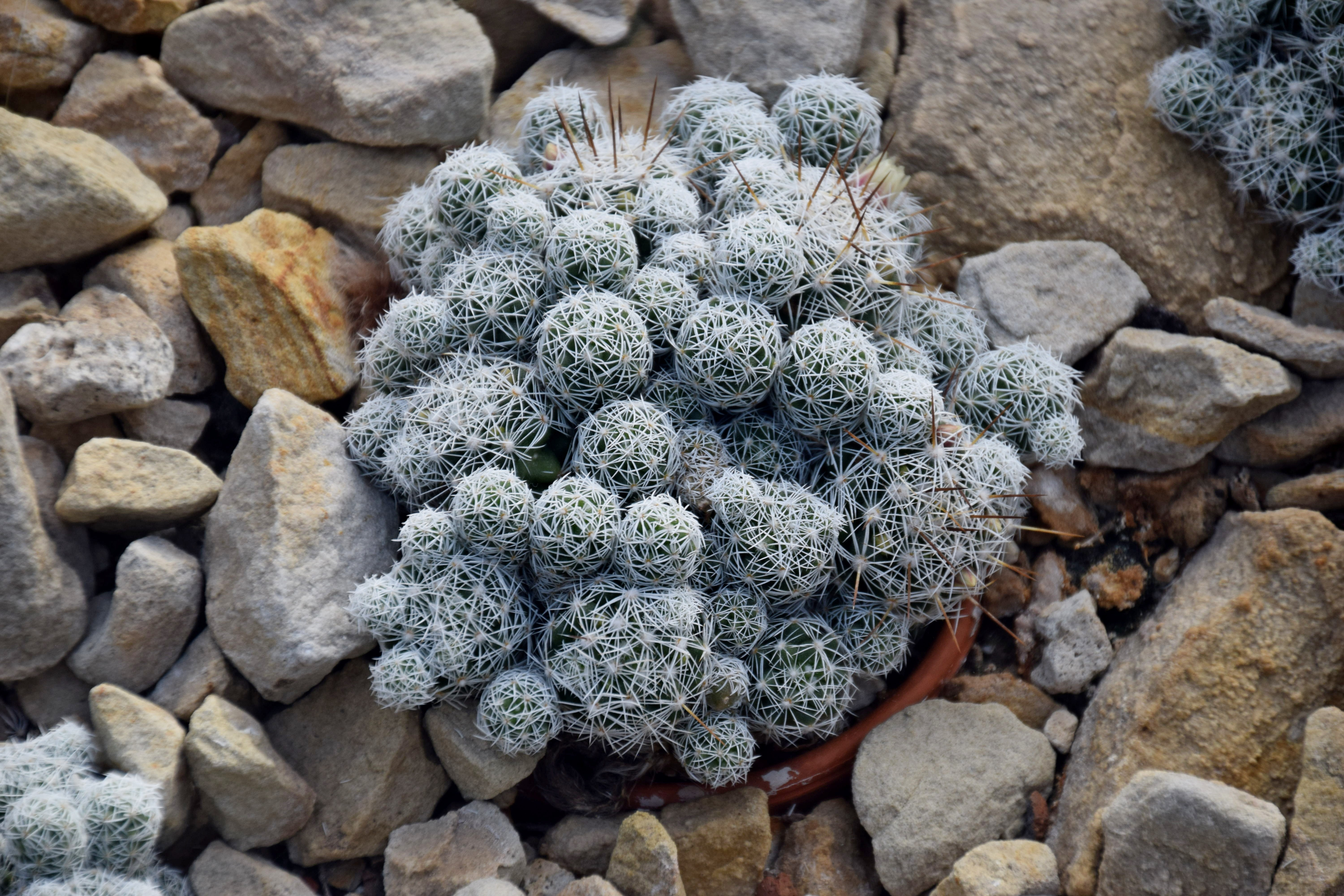 Mammillaria surculosa in Tropengewächshäuser des Botanischen Gartens, Hamburg